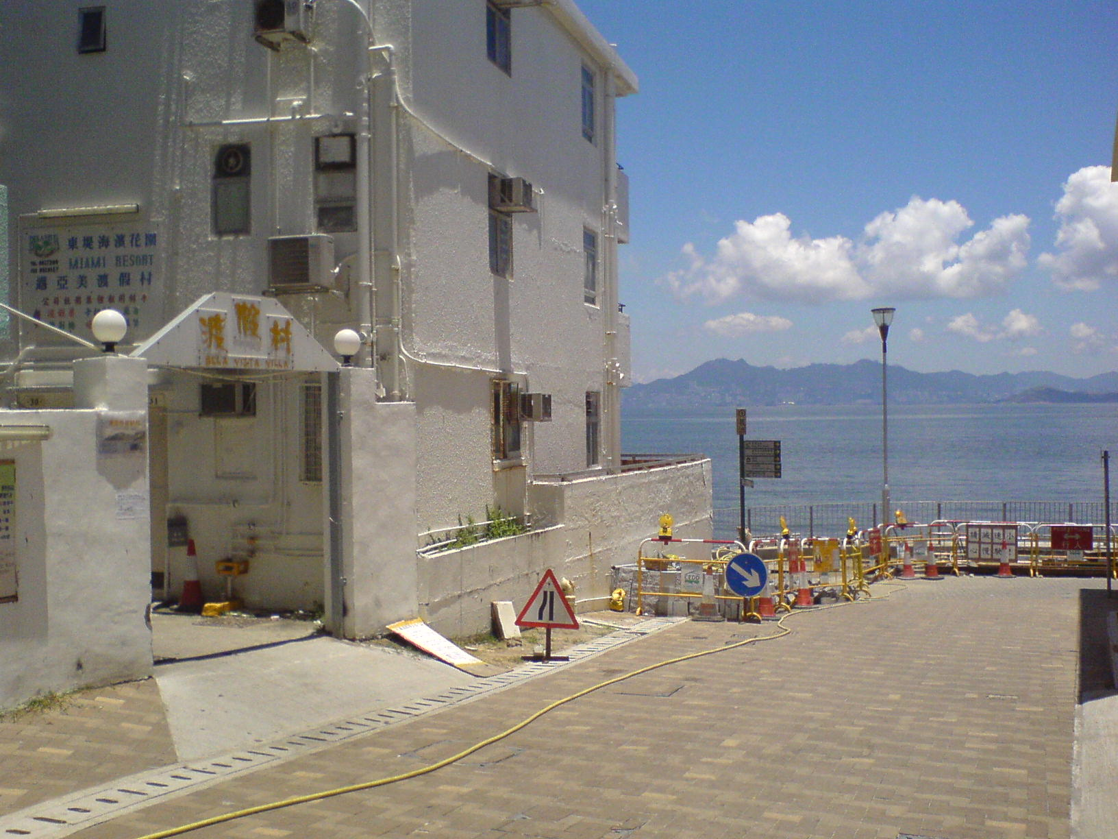 Bela Vista Villa,Cheung Chau,Hong Kong